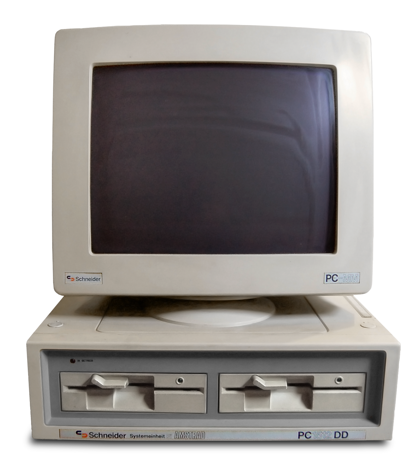 Schneider-badged version of the "Amstrad 1512 DD" PC-compatible computer